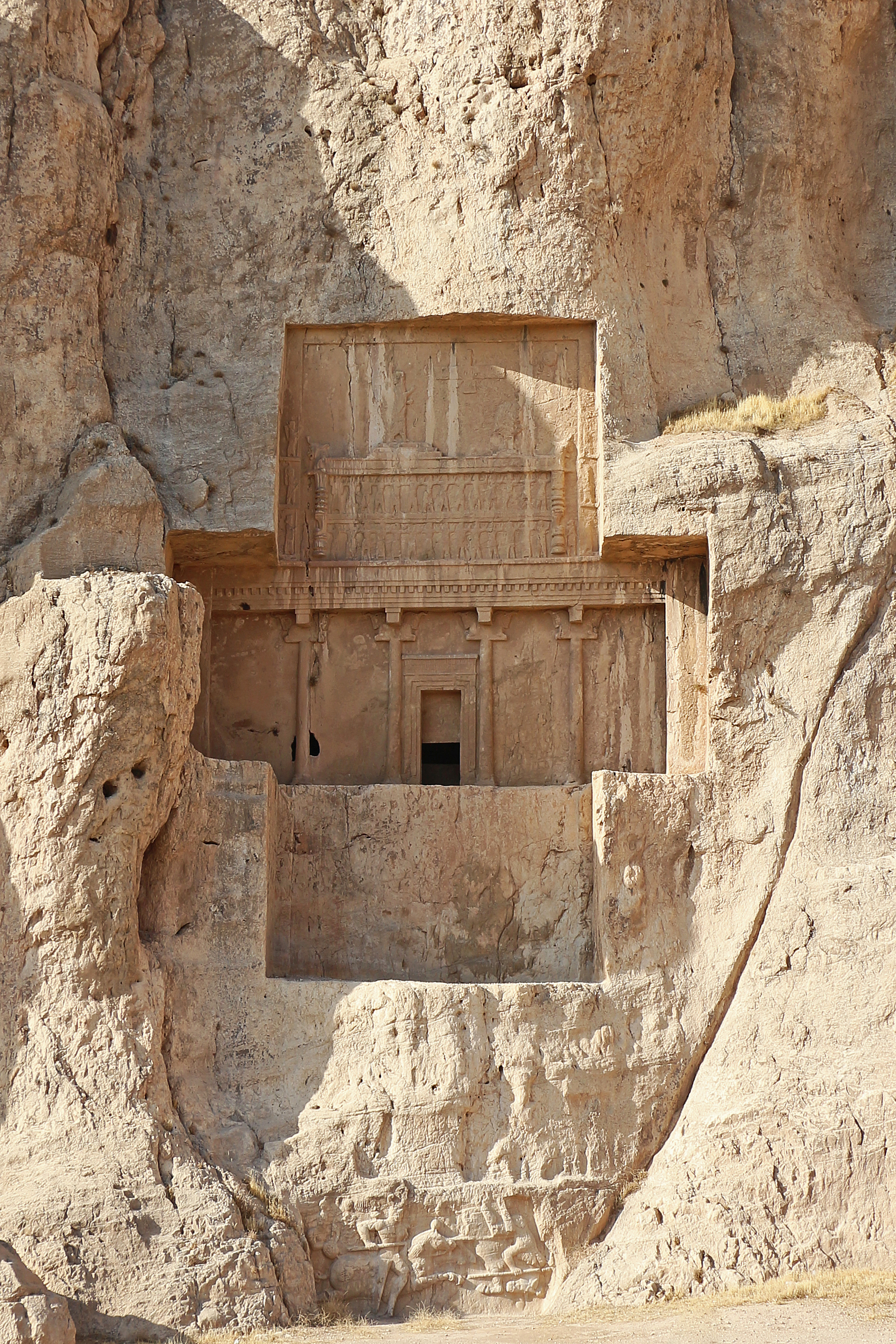 Tomb of Artaxerxes I, Naqsh-e Rustam, Iran